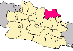 Location of Indramayu county, West Java province, Indonesia